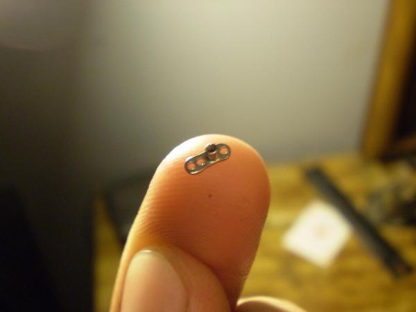 A steel microdermal implant with a 2.0mm rise and 14 gauge post, prior to implant.